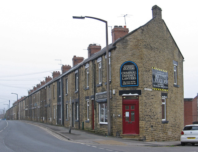 Cudworth - terraces on Pontefract Road